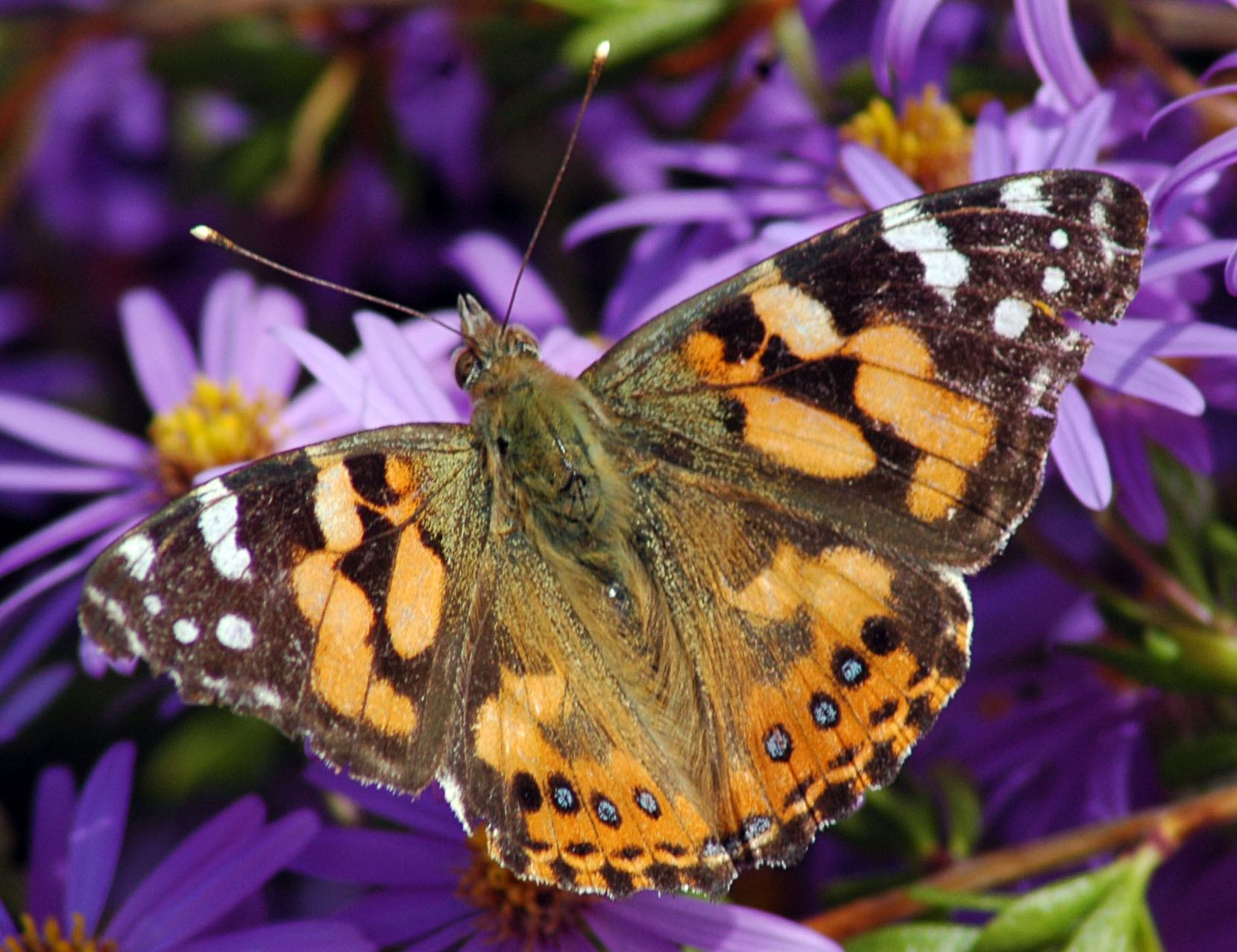 Australian Painted Lady Butterfly, Vanessa kershawi. Tasmania.